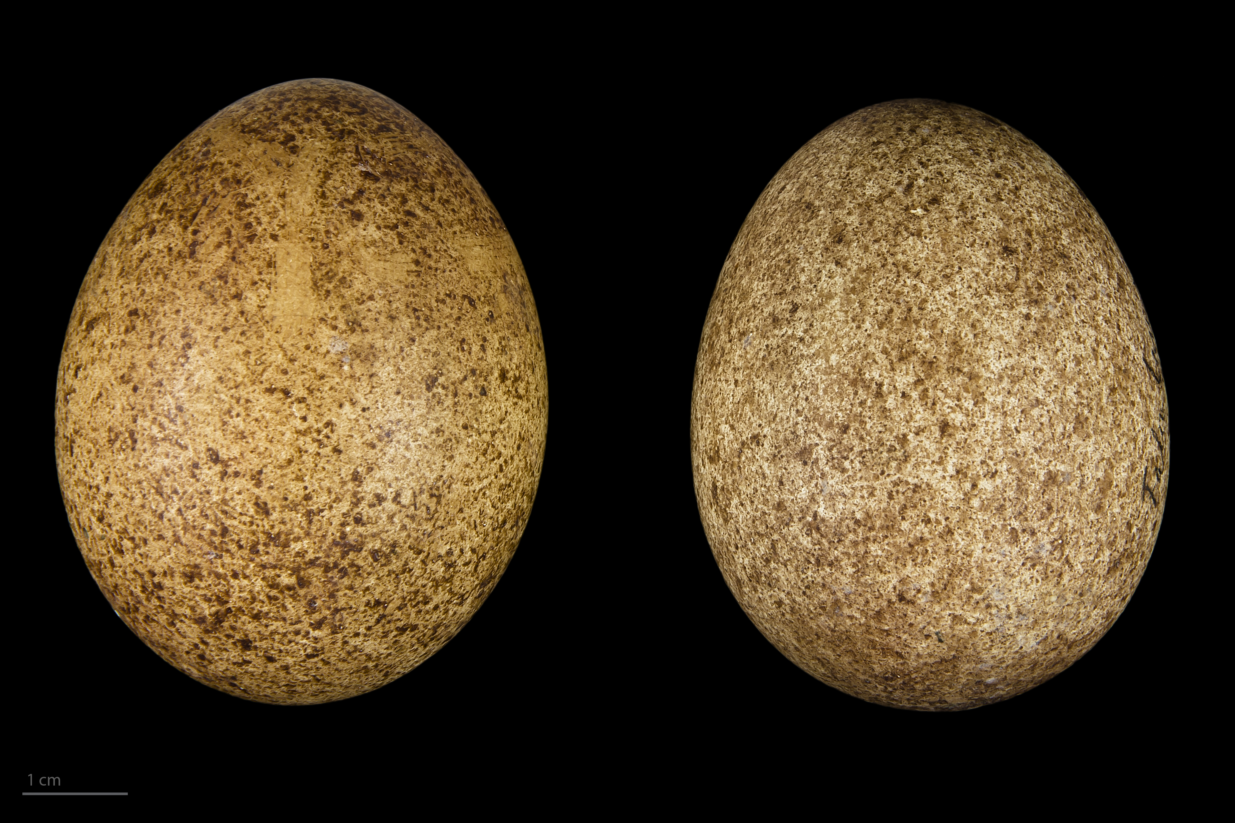 Eggs of lanner falcon Two specimens of the same spawn ; collection of Jacques Perrin de Brichambaut.